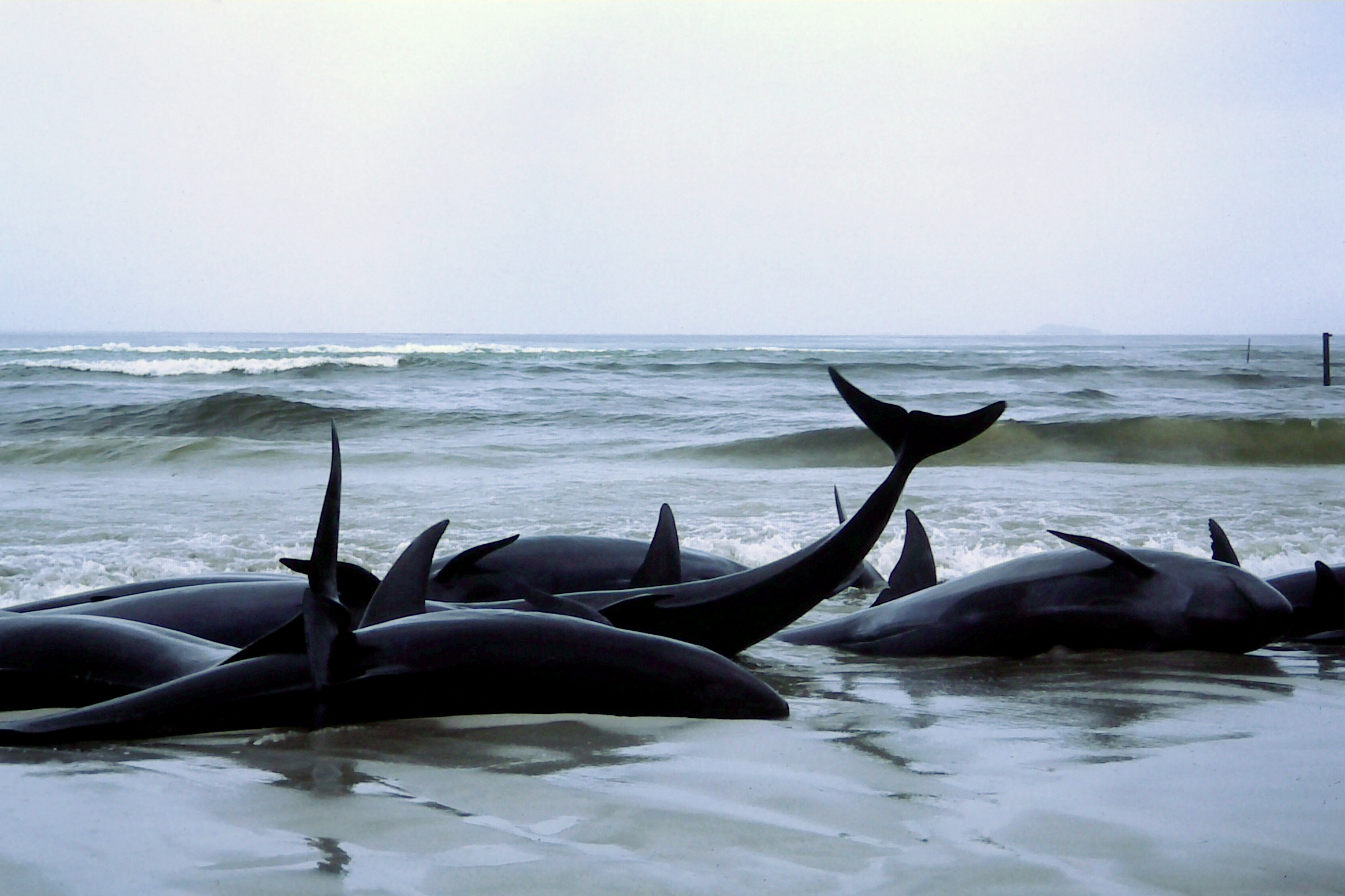 Part of a pod of false killer whales that became stranded at Town Beach, Augusta, in Flinders Bay, Western Australia, at the end of July 1986. Photo taken on the first morning of the stranding. Kodachrome slide converted by Kaiser Baas Photo Maker Pro into a digital image.